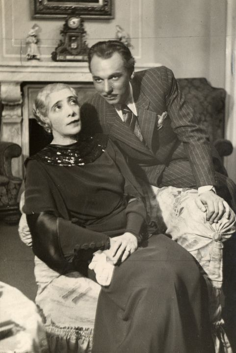 Szembekötősdi. Hungarian National Theater. Director: Kálmán Csathó. Ilona Cs. Aczél as Mrs Duteil, József Timár as Jacques.